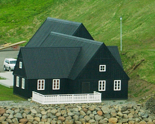 The Pakkhúsið in the village of Hofsós / Iceland